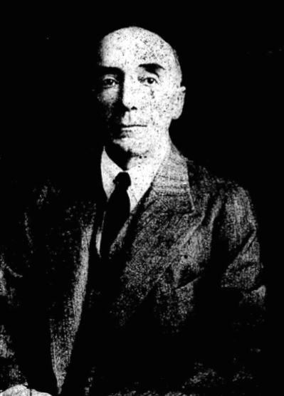 Mr Justice Richard Feetham